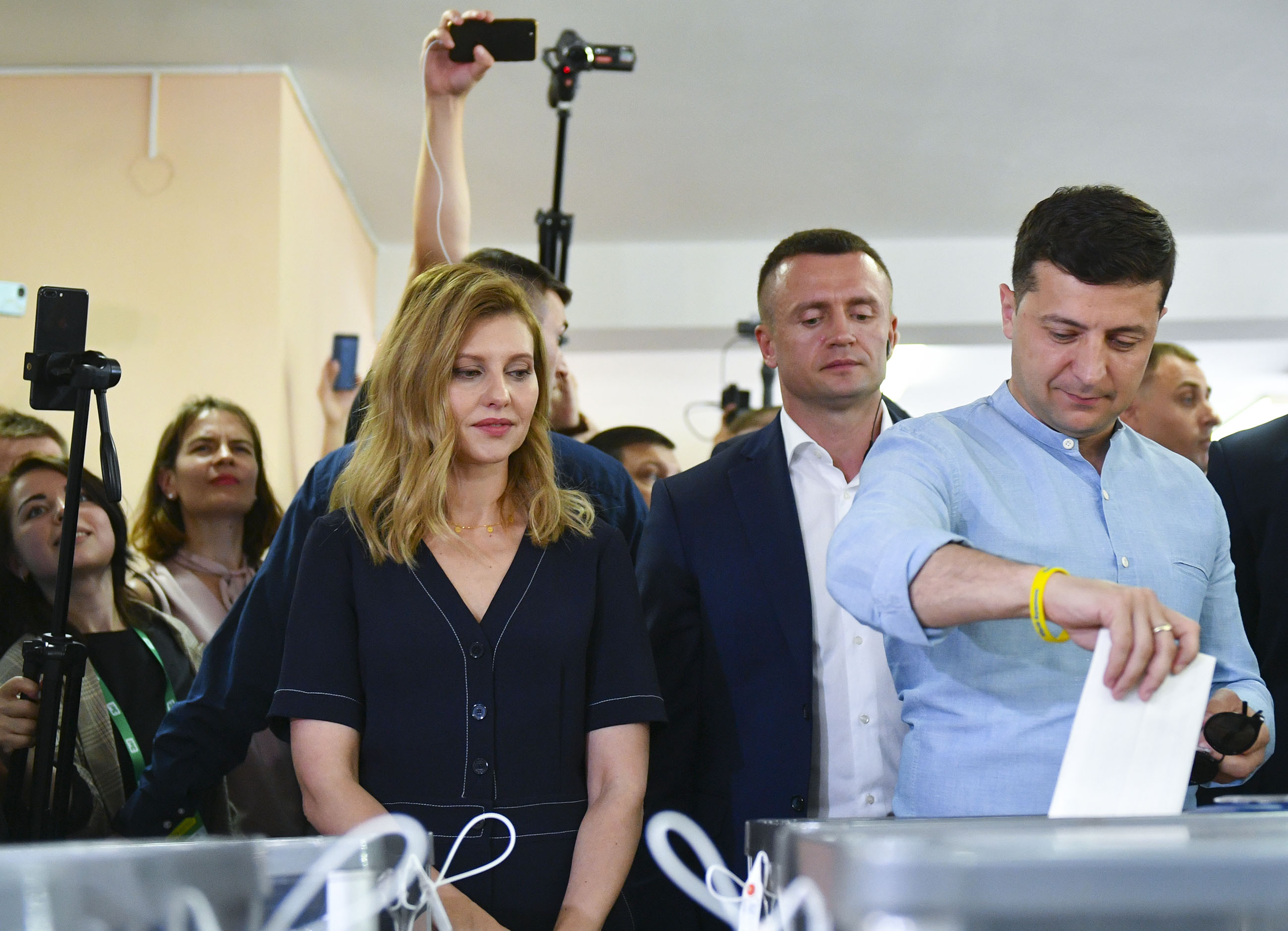 Volodymyr Zelenskyy voted in parliamentary elections (2019-07-21)